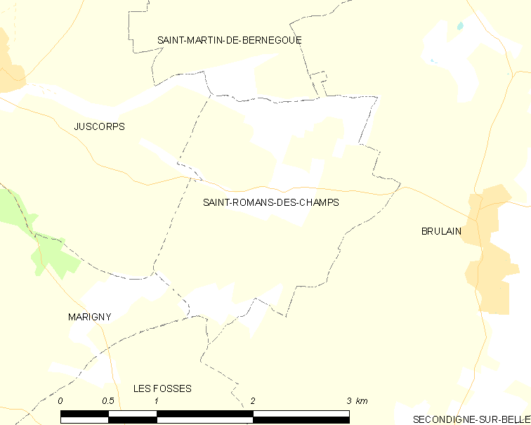 Map of French municipality Saint-Romans-des-Champs